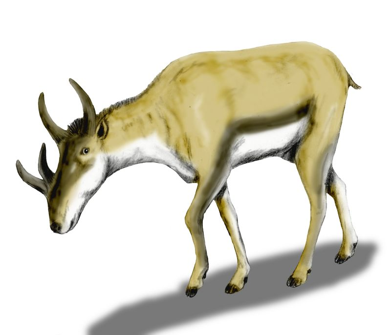 Syndyoceras cooki, a protoceratid artiodactyl from the Early Miocene of North America, pencil drawing, digital coloring